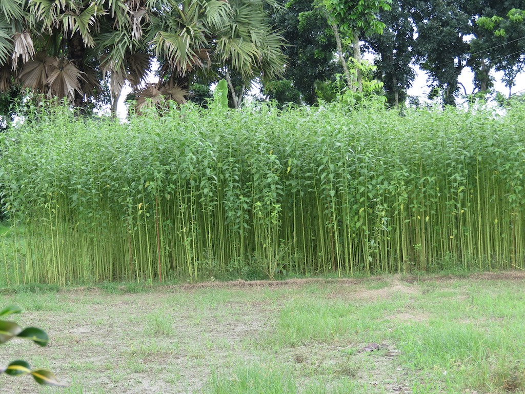 Much like converting flax to linen, Jute is retted -- harvested, defoliated, and soaked in water to allow bacteria to rot away everything but the cellulose fibers, which are then made into twine, rope, and burlap. The plant likes very wet soils and is grown as an alternate crop in rice paddy.